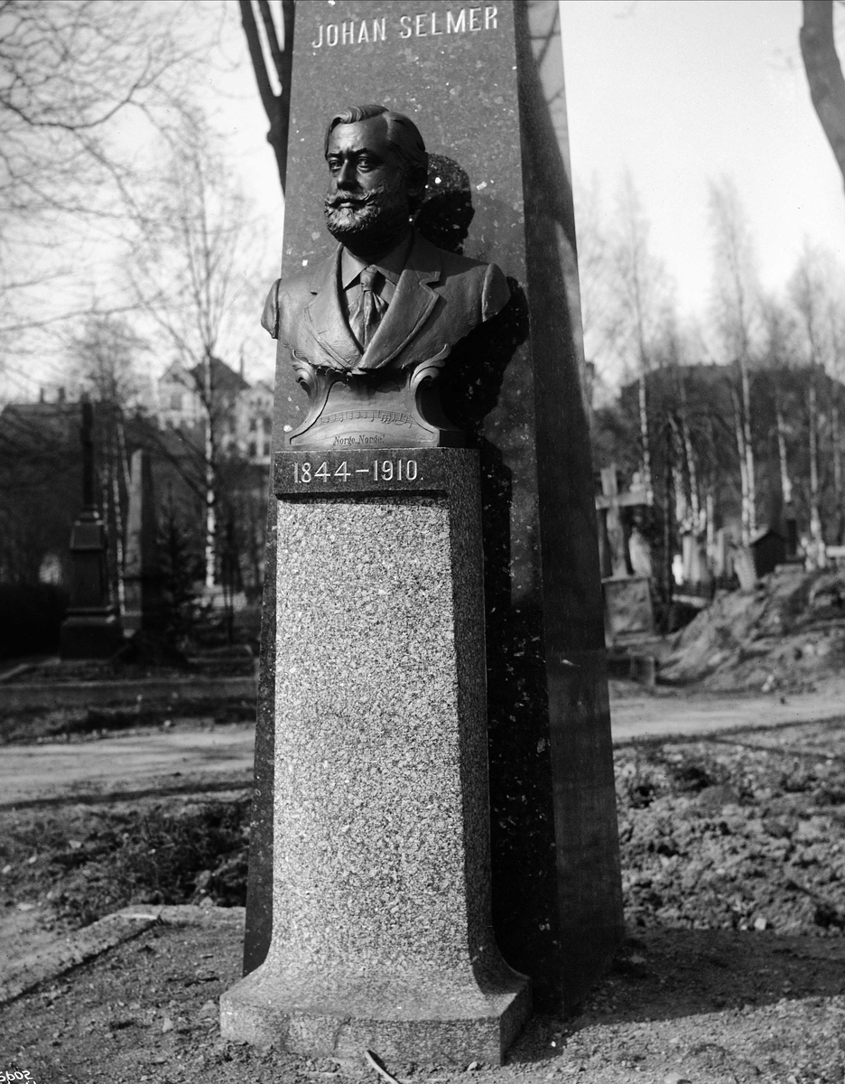 Grave monument of Johan Peter Selmer i Oslo. Bust by Jo Visdal.